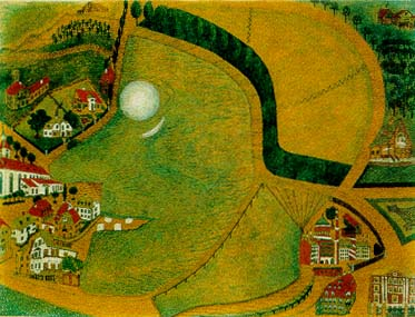 August Natterer: Witch's head, c. 1915, Prinzhorn Collection